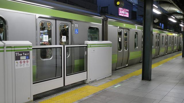 A platform screen door at Ebisu Station on Yamanote Line